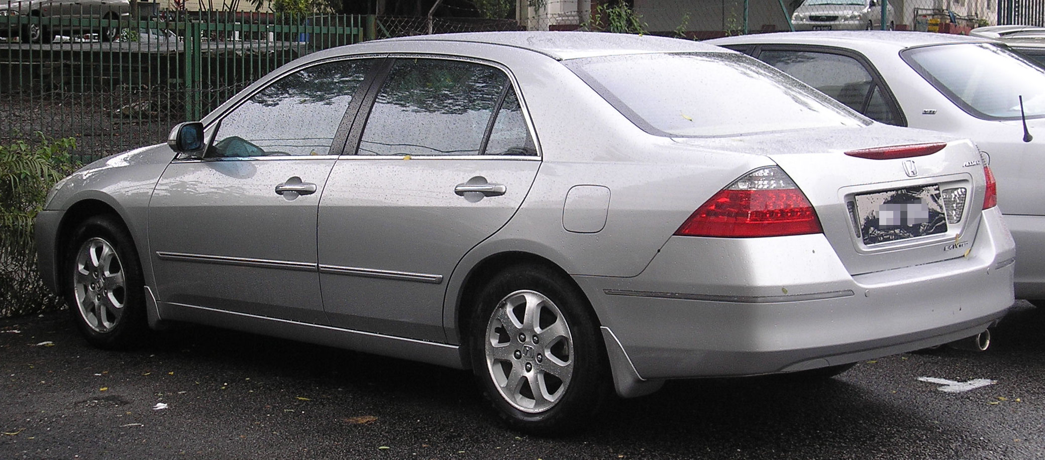 Rear quarter view of a seventh generation, first facelift Honda Accord in Bukit Nanas, Kuala Lumpur, Malaysia.